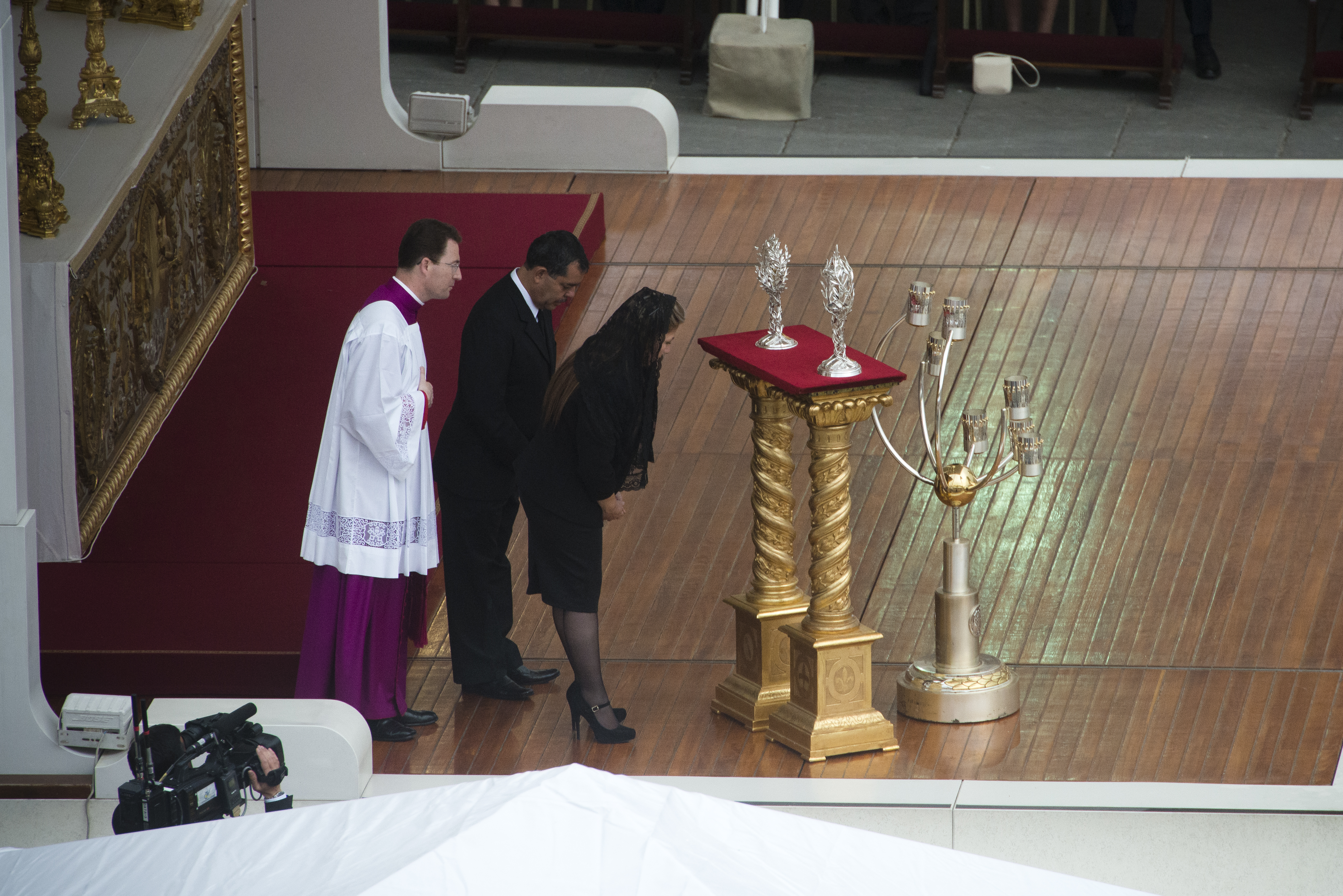 ROME,VATICAN 27 APRIL: Images taken from what will go down in history as one of the largest and most important days in current history. The Canonization of Blessed Pope John XXIII and Blessed Pope John Paul II. Two beloved Popes from the 20th Century.